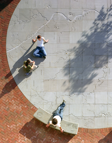 Watermap: Friends’ Central School, Wynnewood, PA 2003 Tributaries of the Delaware and Schuylkill Rivers are deeply sandblasted into bluestone paved terrace. When it rains, the rainwater flows into the runnels of the tributaries and then into deeply inscribed Delaware River, creating a watershed in miniature.